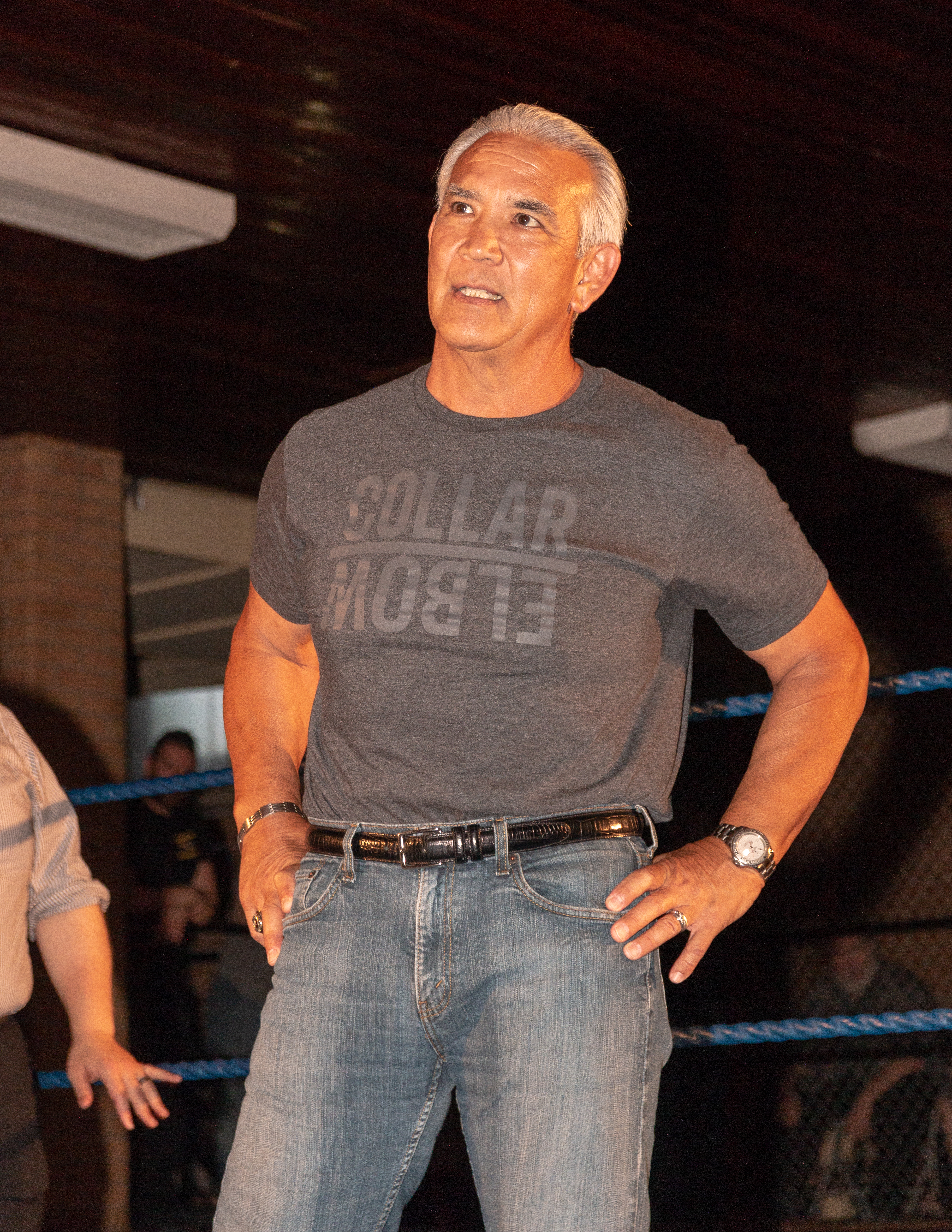 WWE legend Ricky Steamboat at a Greektown Wrestling show in Toronto, ON